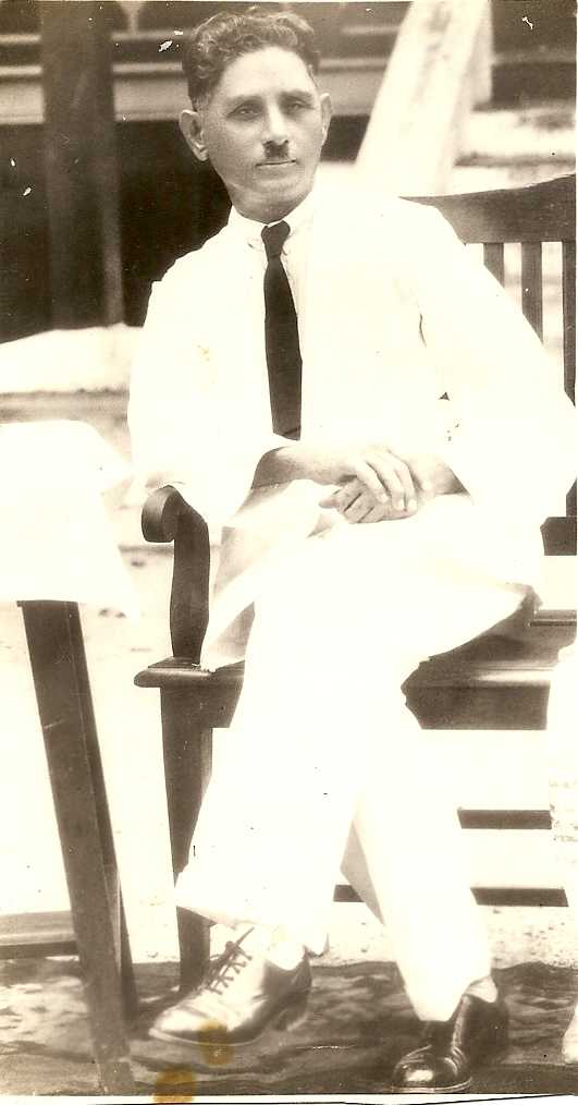 Photograph of BP Nicholas